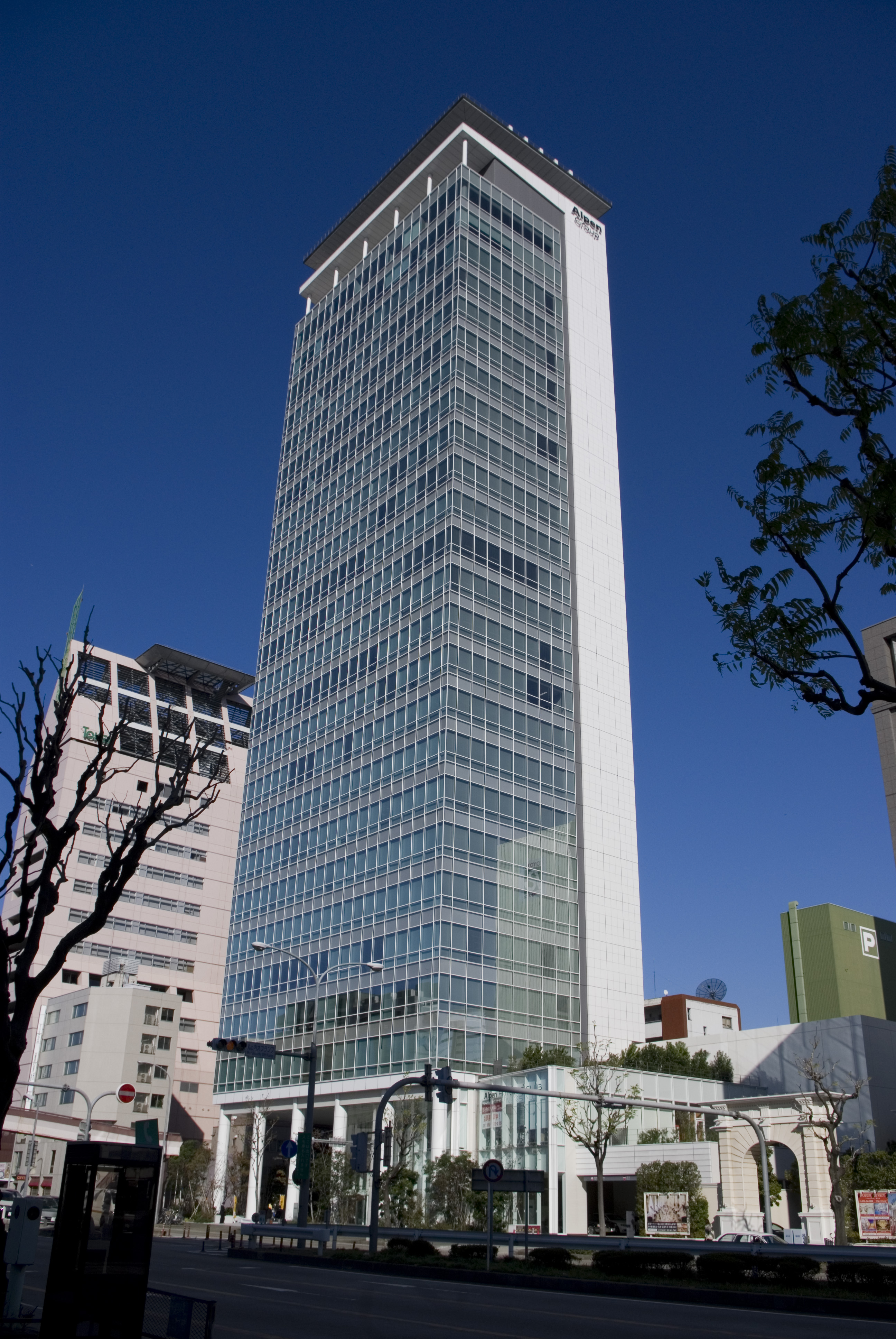 Alpen's Head Office Building (Alpen Marunouchi Tower)